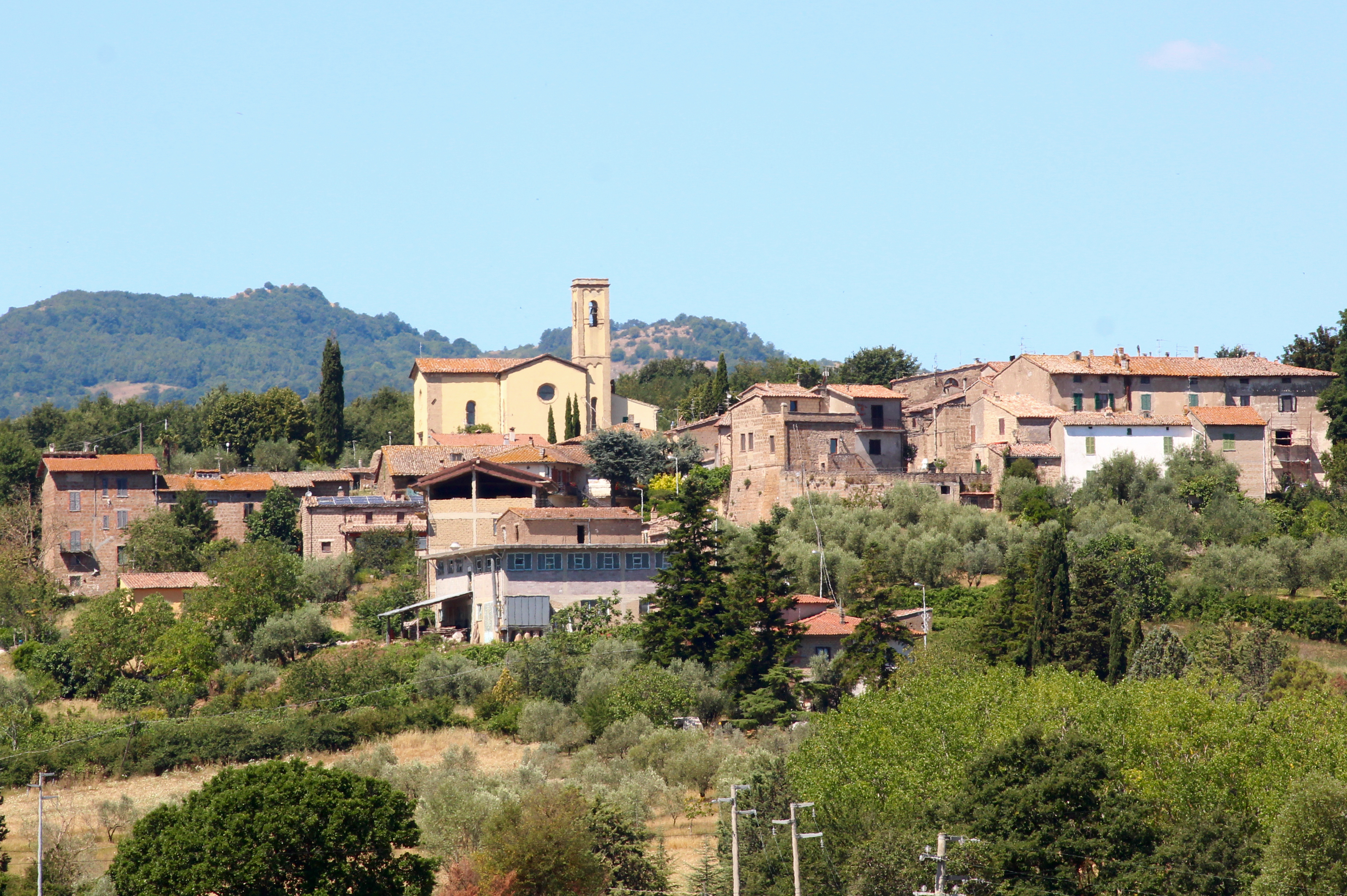 Panorama of San Giovanni delle Contee, hamlet of Sorano, Province of Grosseto, Tuscany, Italy